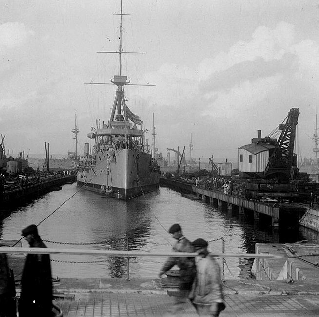 HMS Dreadnought, the first big-gun battleship with steam turbines, constructed 1906, for which a class of such ships were named.